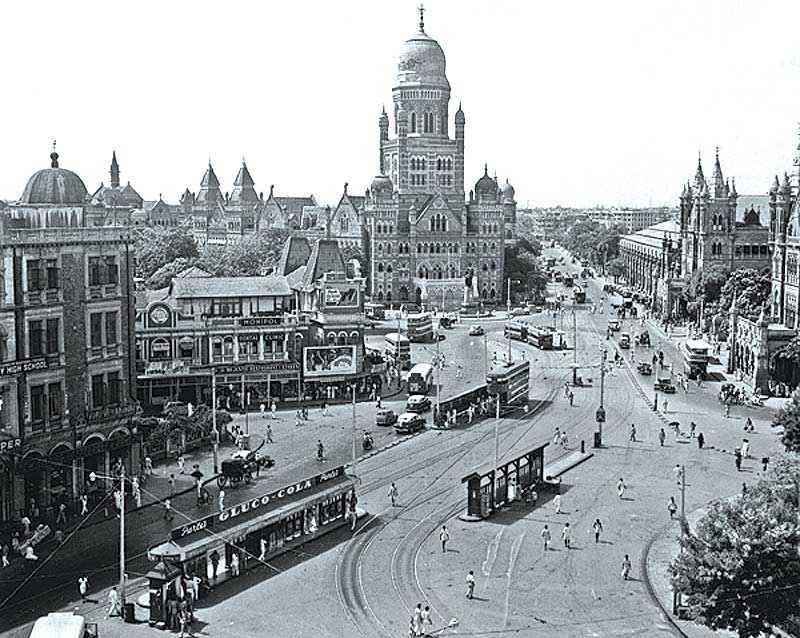 Victoria Terminus in Bombay in late 1930's.